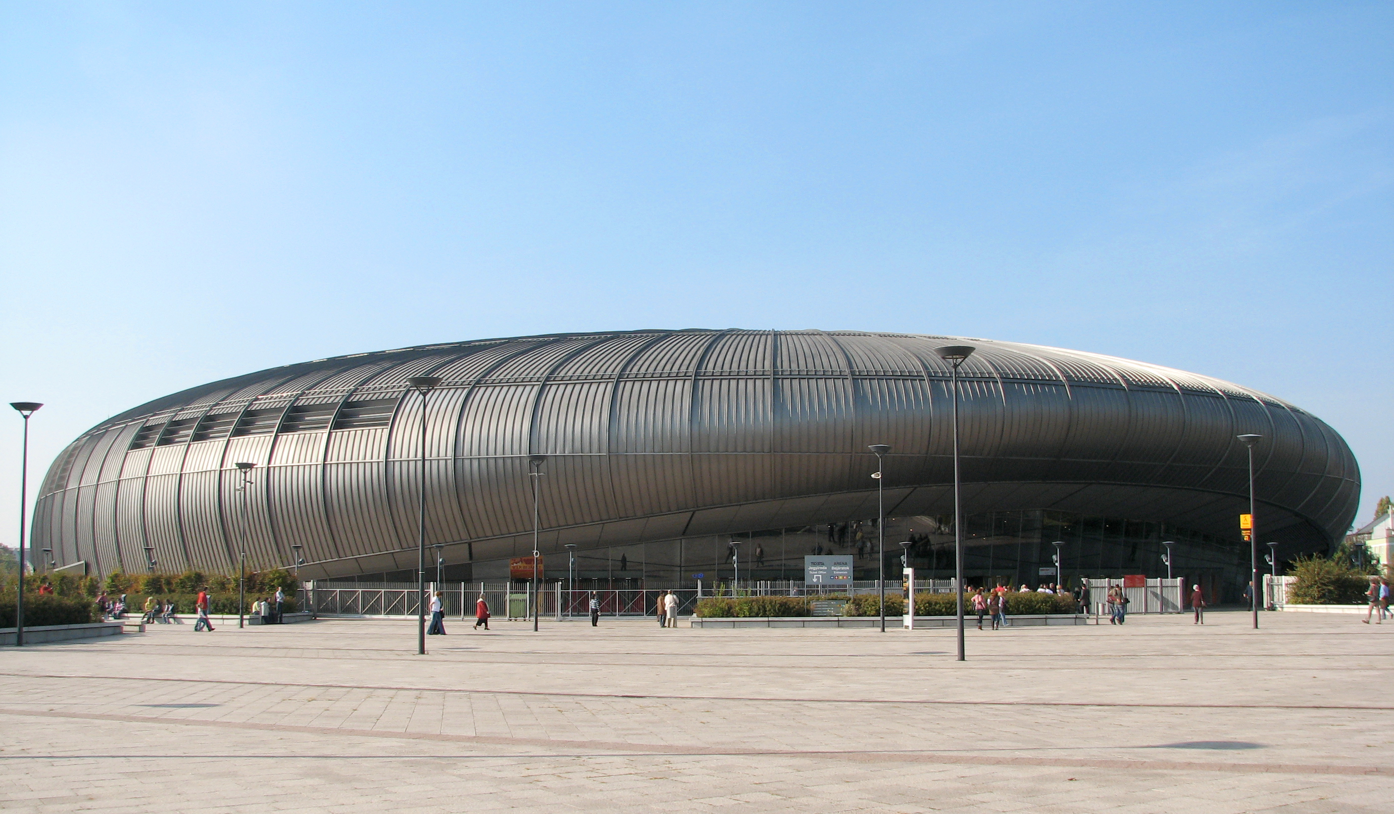 Papp László sporthall in Budapest, Hungary